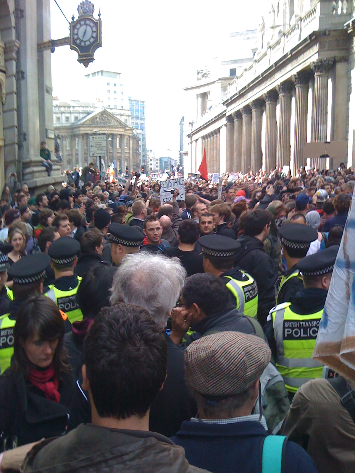 Crowd at the G20 Meltdown protest in London on 1 April 2009 in the early afternoon.